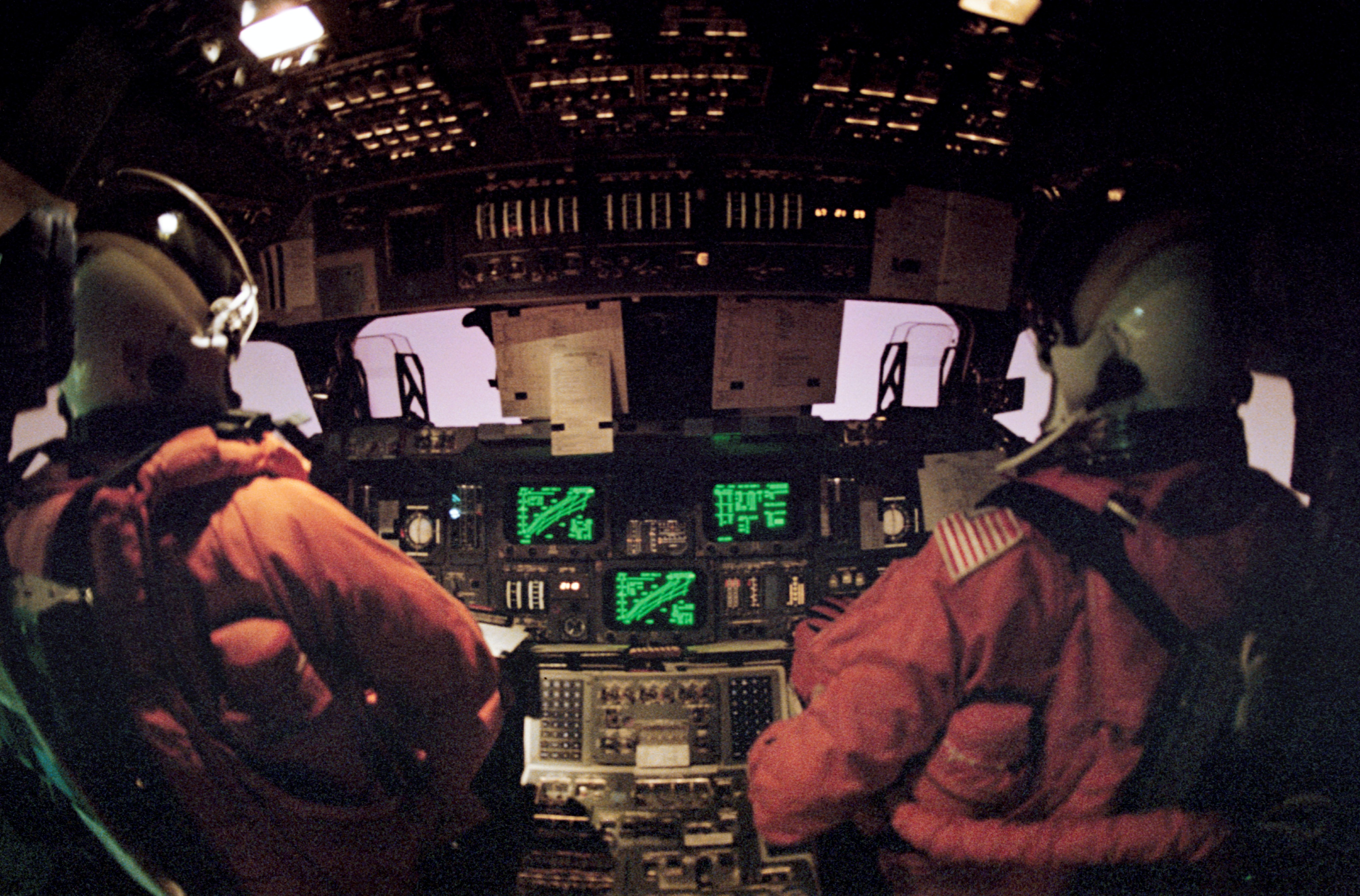 Front deck astronaut view of the Space Shuttle re-entering the atmosphere on STS-42 in January 1992. The pinkish glow outside the windows (true color) is the plasma from aerodynamic heat friction.